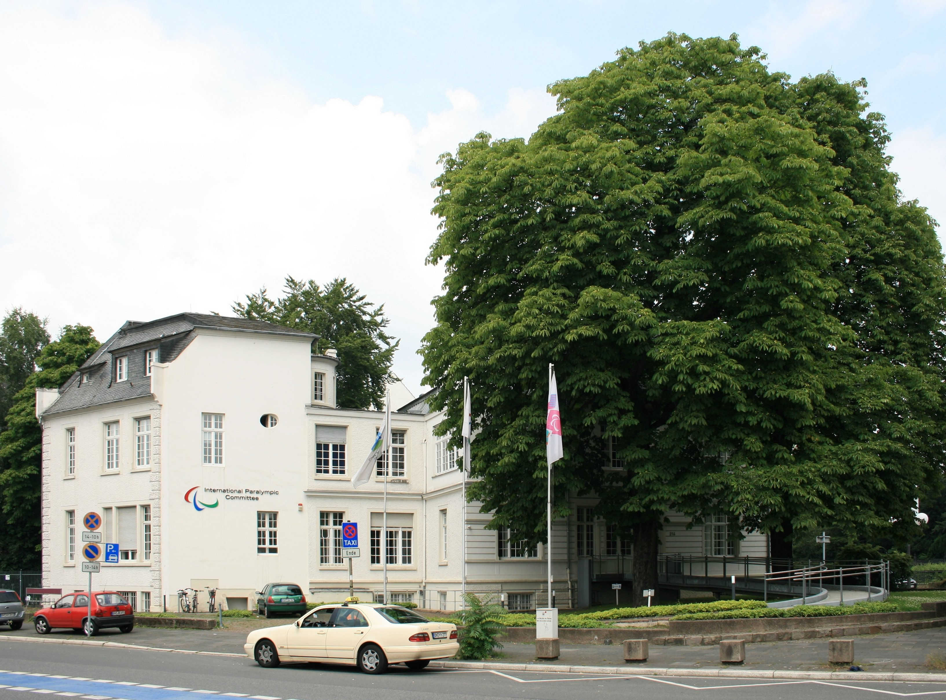 Headquarter International Paralympic Comittee (IPC) in Bonn, Germany